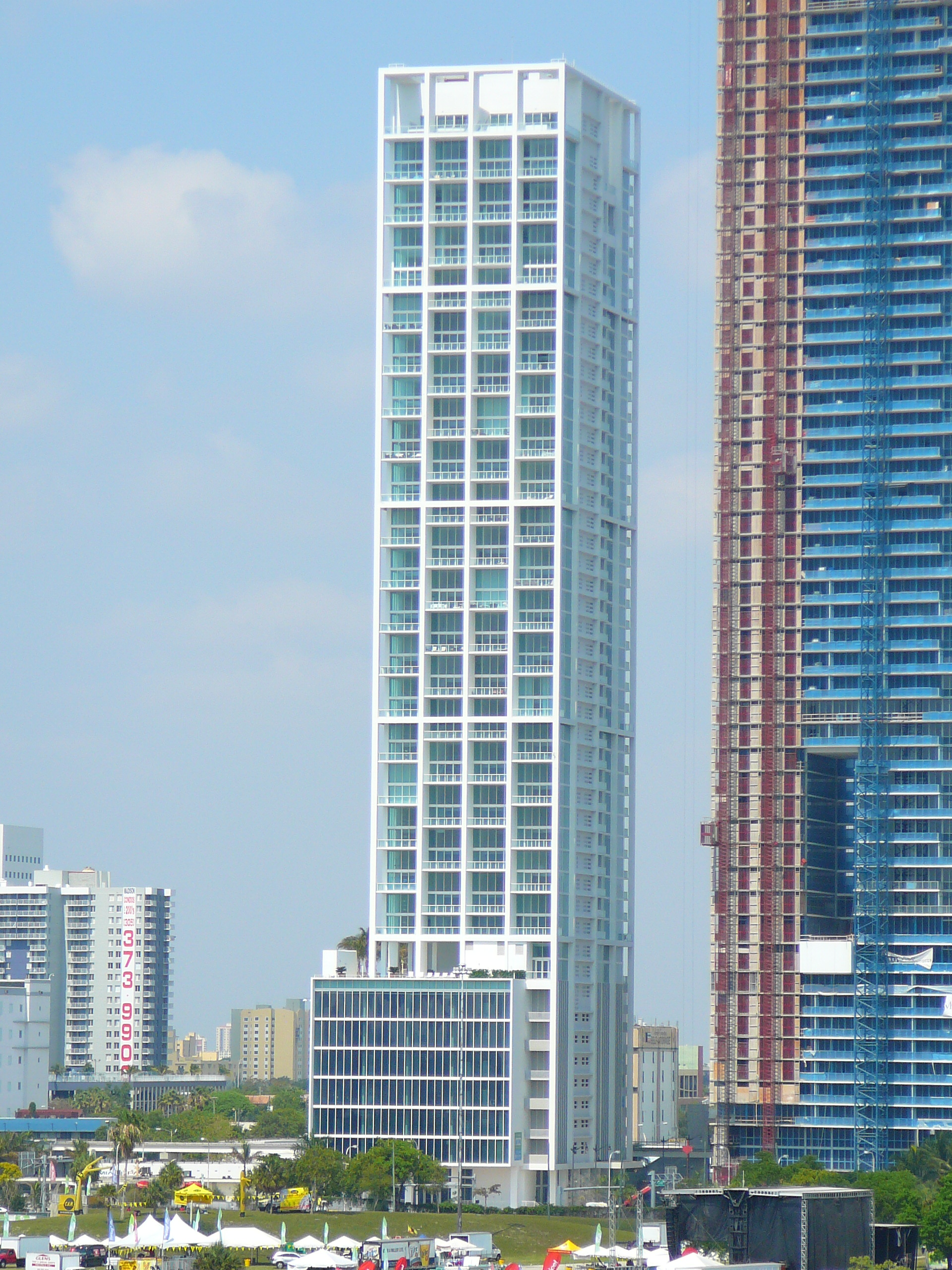 Digital photo taken by Marc Averette. Ten Museum Park in Downtown Miami 5/17/2008